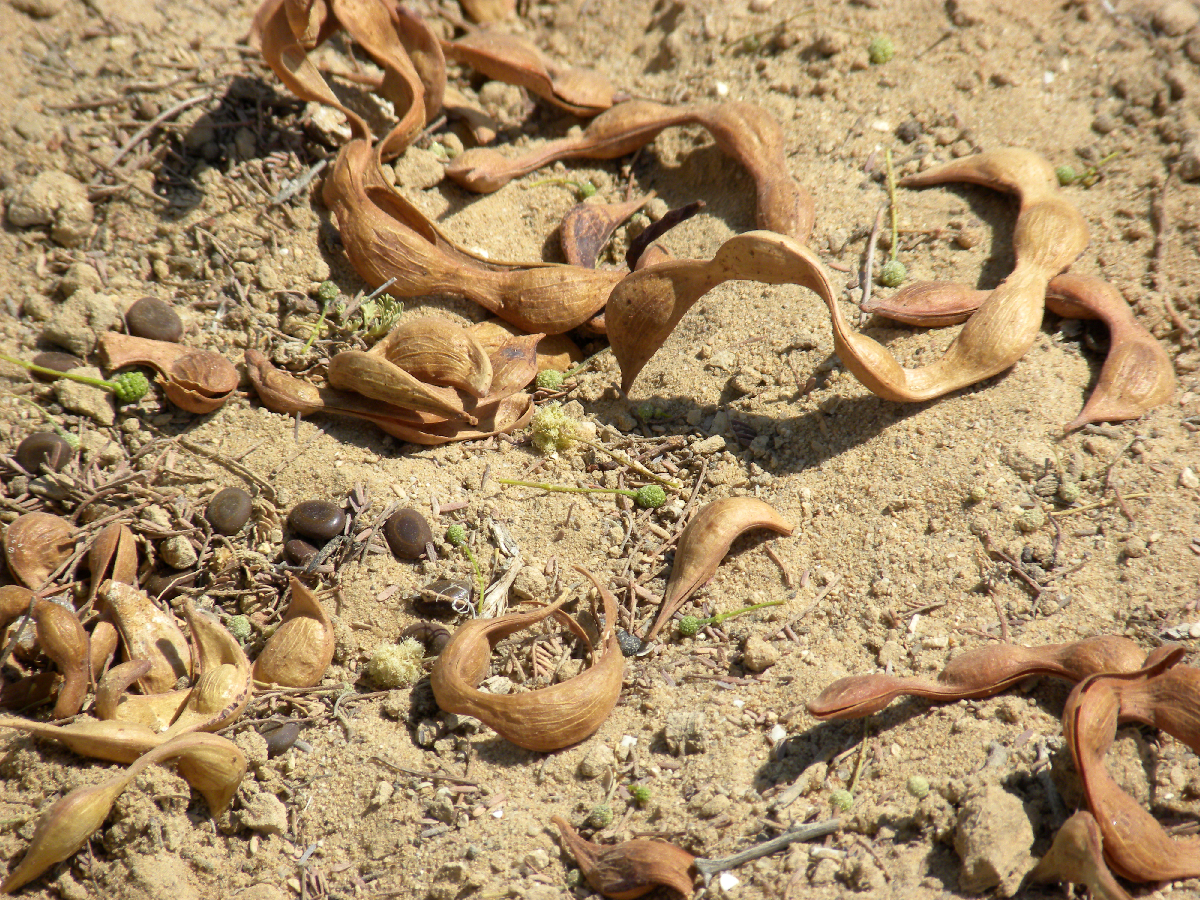 Acacia seeds in Makhtesh Gadol, the Negev, Israel.